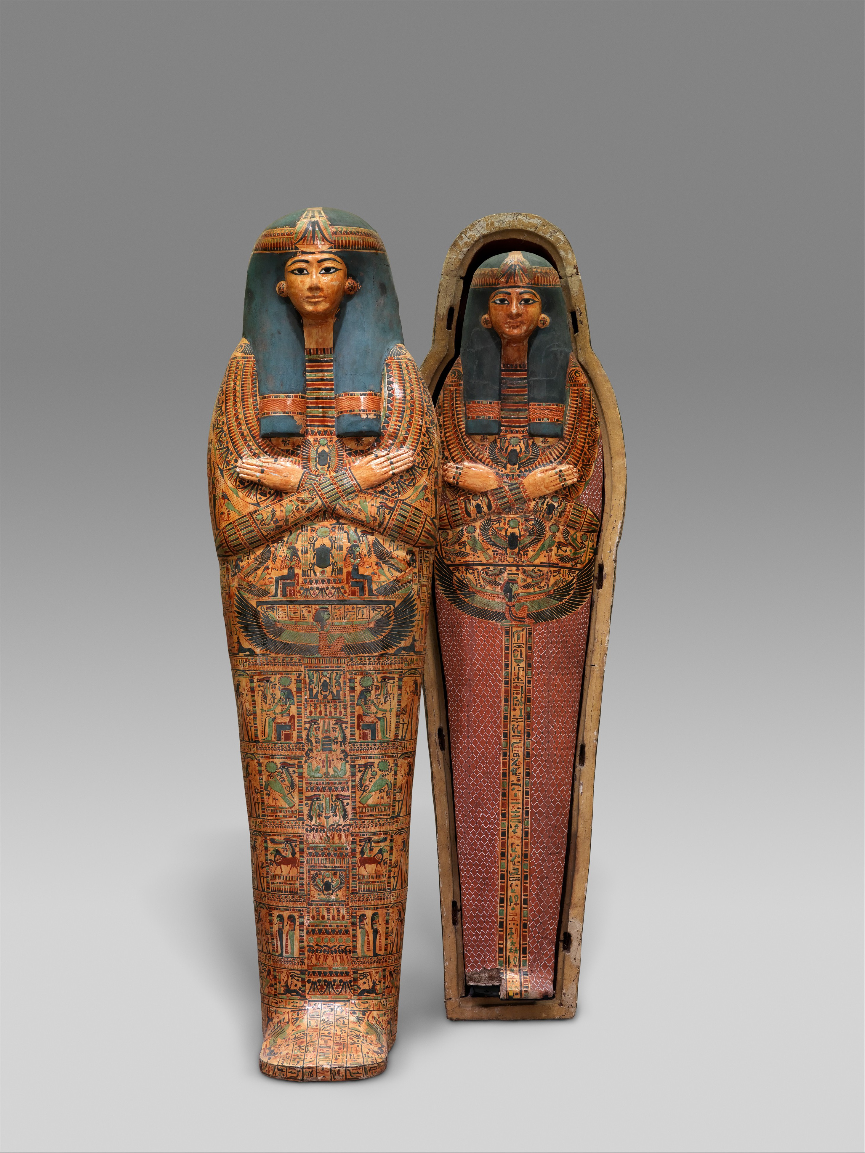 Coffin, Henettawy F, singer of Amun-Re